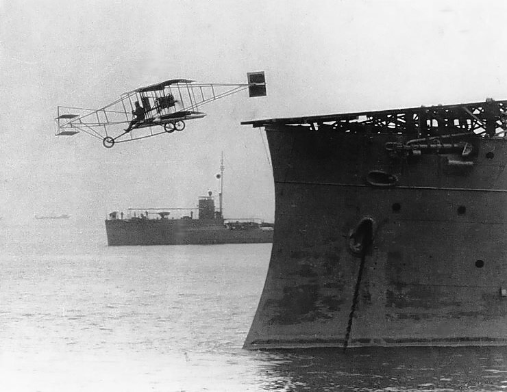 First airplane takeoff from a warship Eugene Burton Ely flies his Curtiss pusher biplane from USS Birmingham (Scout Cruiser No. 2), in Hampton Roads, Virginia, during the afternoon of 14 November 1910. USS Roe (Destroyer No. 24), serving as plane guard, is visible in the background.